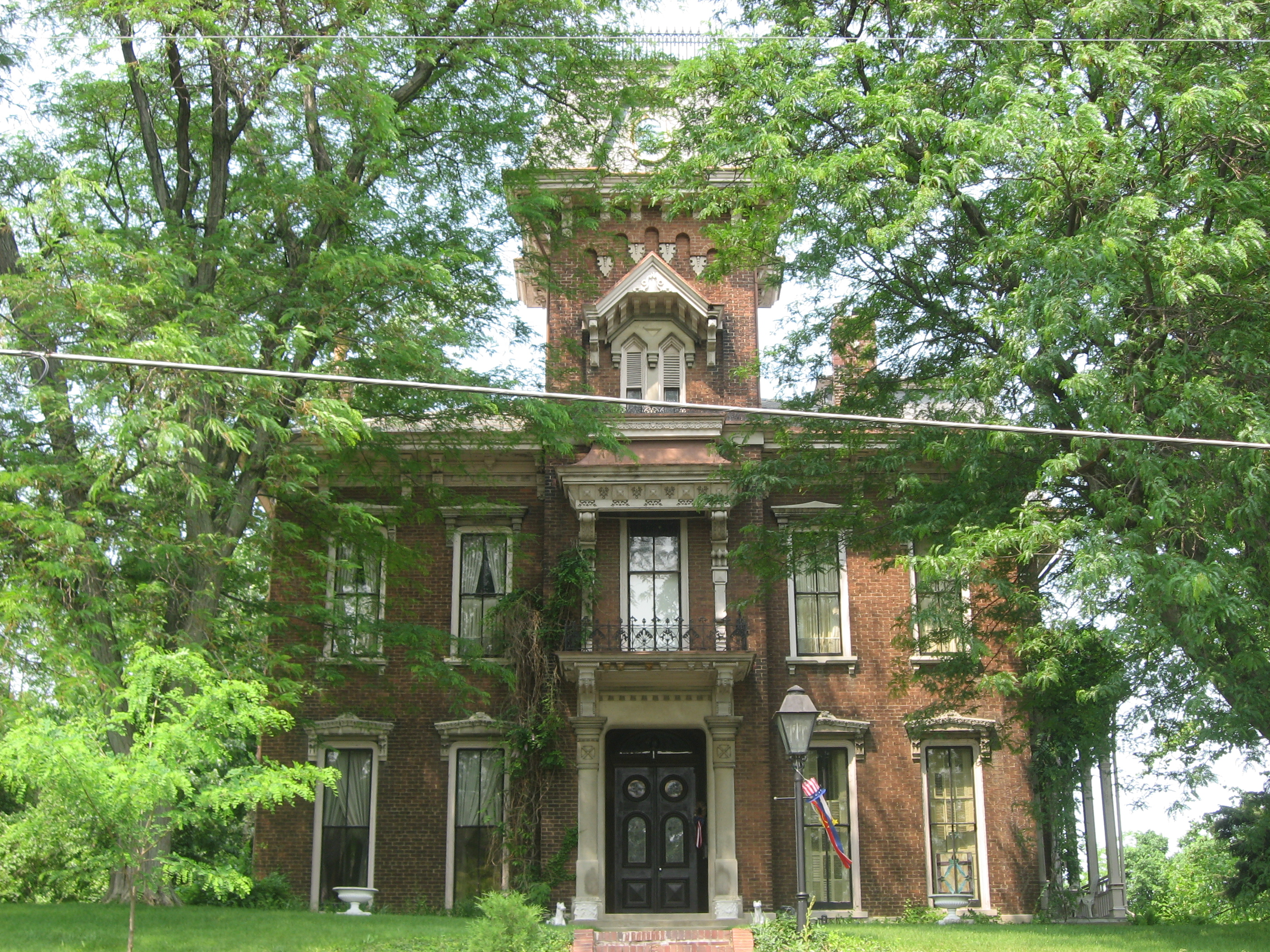 Front of the Judge Cyrus Ball House, located at 402 S. Ninth Street in Lafayette, Indiana, United States. Built in 1868, it is listed on the National Register of Historic Places.